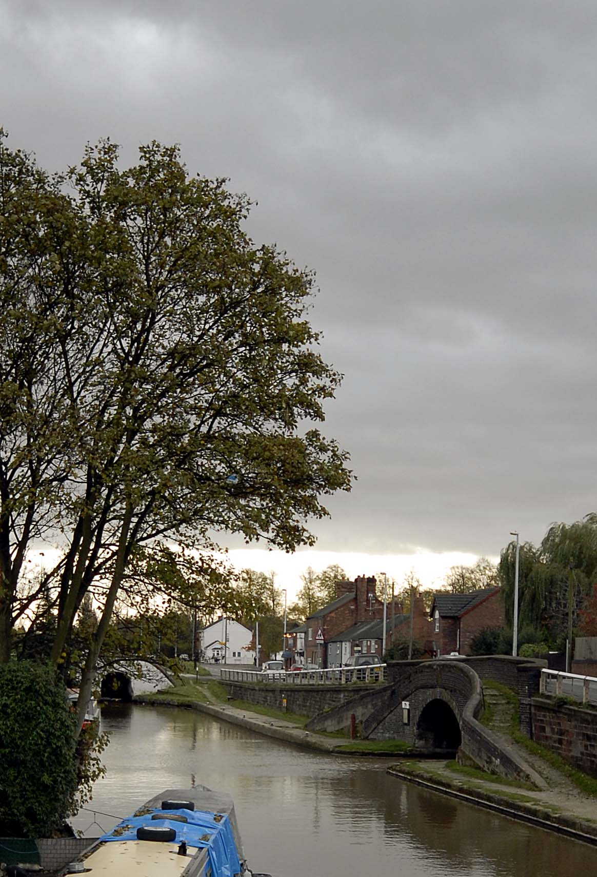 Photograph of junction between Wardle Canal and Trent and Mersey Canal, Middlewich, Cheshire.